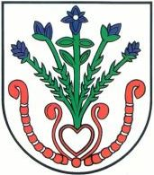 Helpa - heraldry, Heľpa - heraldry